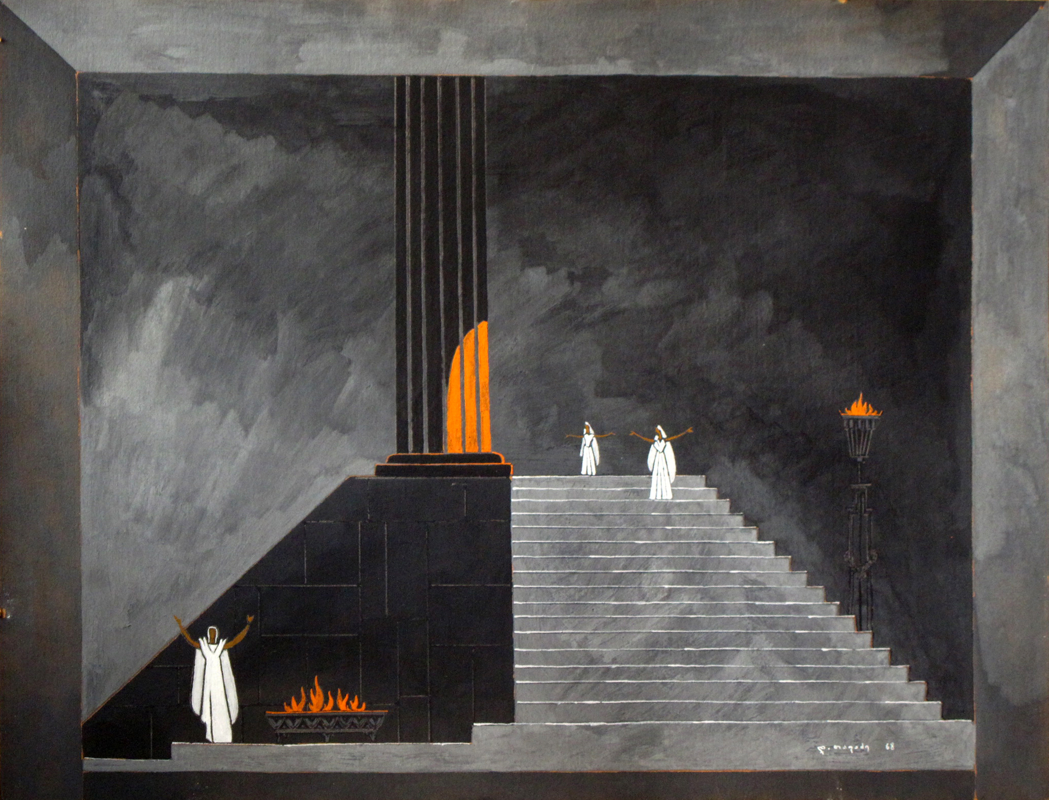 Author: Dimitri Tavadze; Year: 1968; Tskhinvali Khetagurov Theater; Sophocles – Oedipus the King